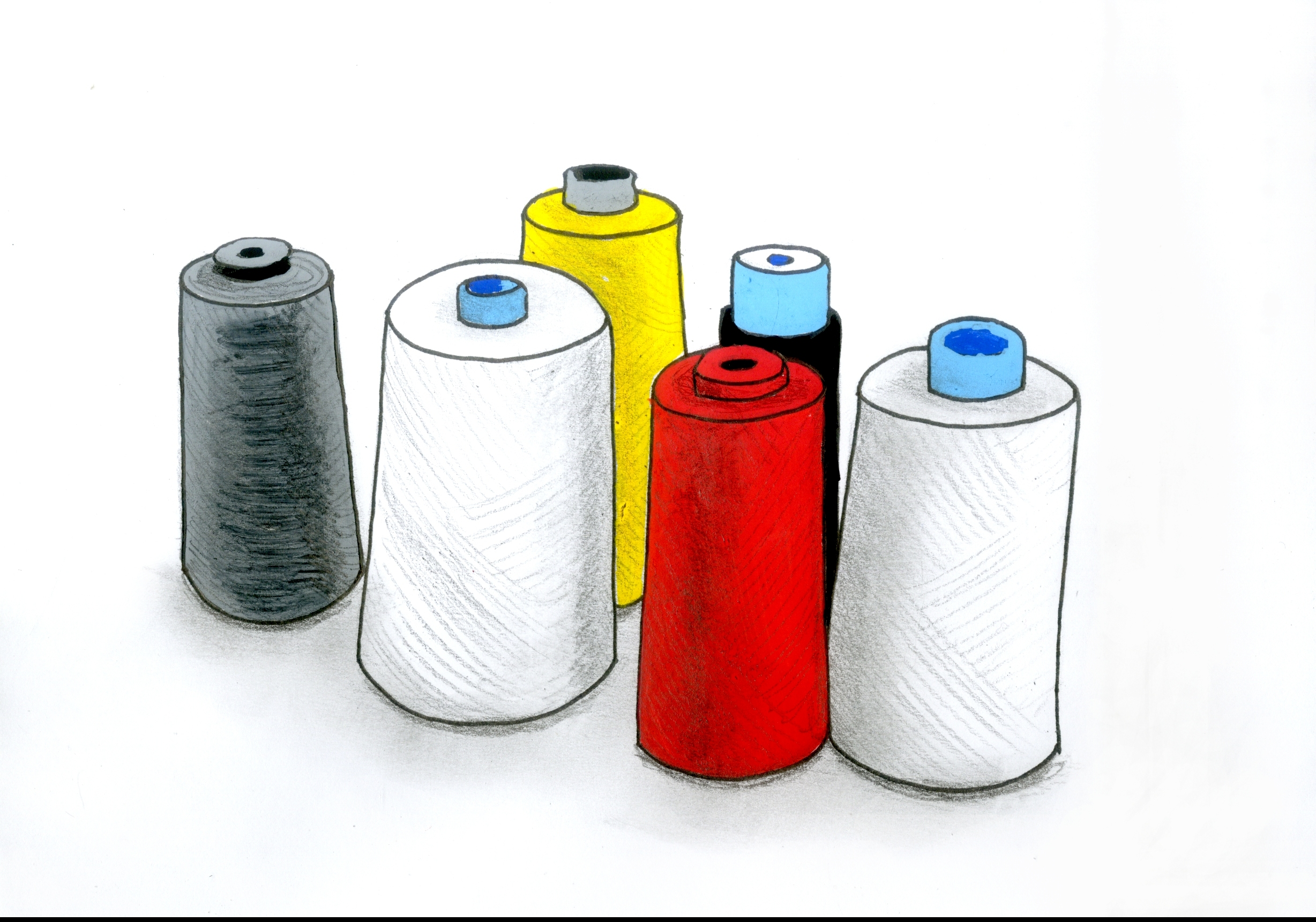 Spools of thread for sewing. Different colors.